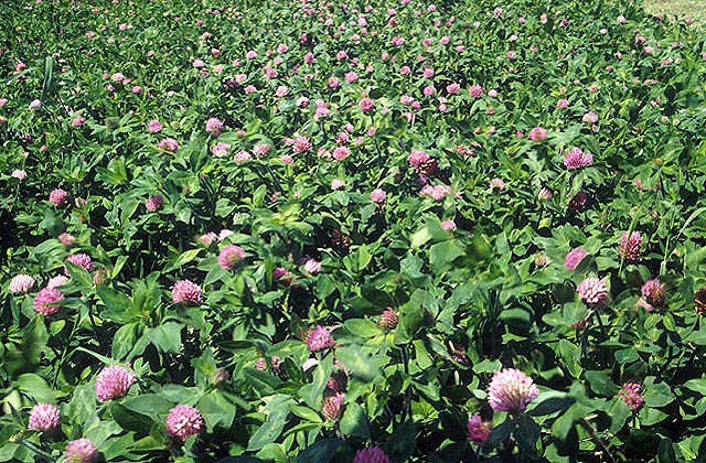 Red clover from